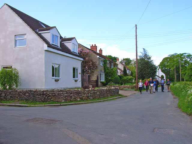 Coast to Coast walk, old Colburn village